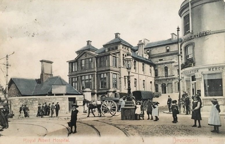 Old postcard of Royal Albert Hospital, Devonport